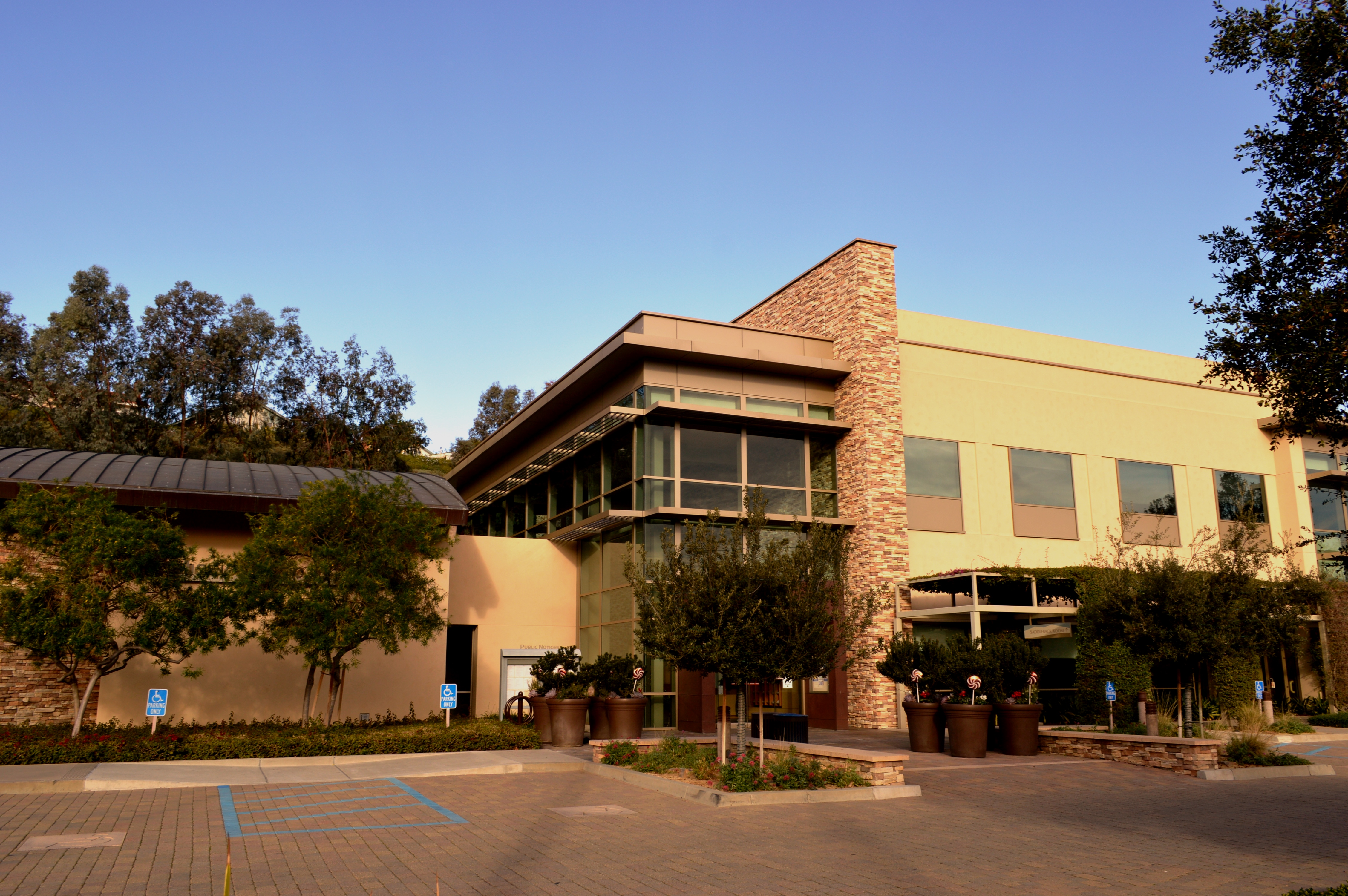 Mission Viejo City Hall at the Mission Viejo Civic Center.